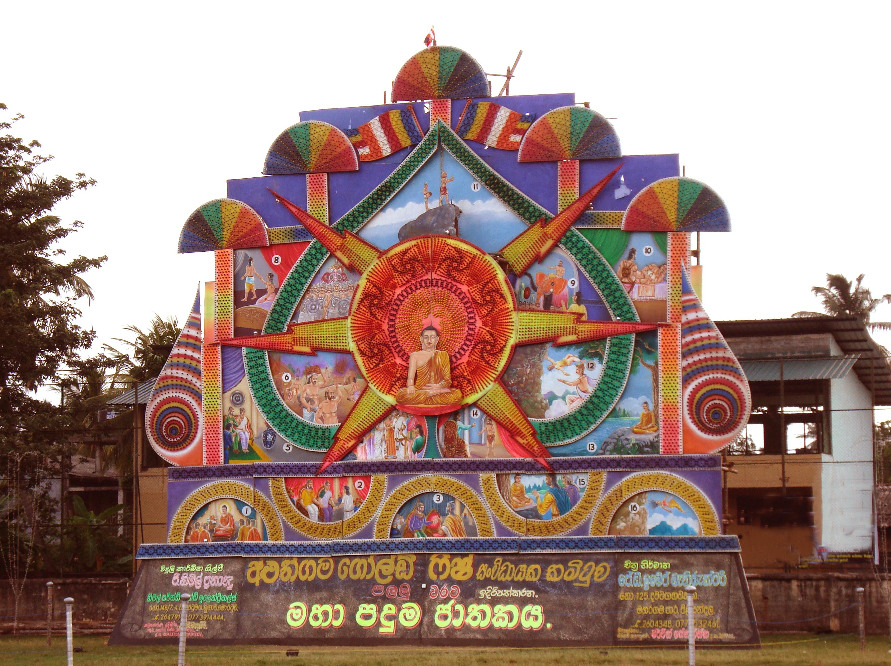 Poson Pandal at Aluthgama, Sri Lanka. It's the Poson (6th month) Fullmoon festival celebrated by the Buddhists in Sri Lanka. It commemorates the introduction of Buddhism to Sri Lanka by Arahat Mahinda, son of King Asoka of India.